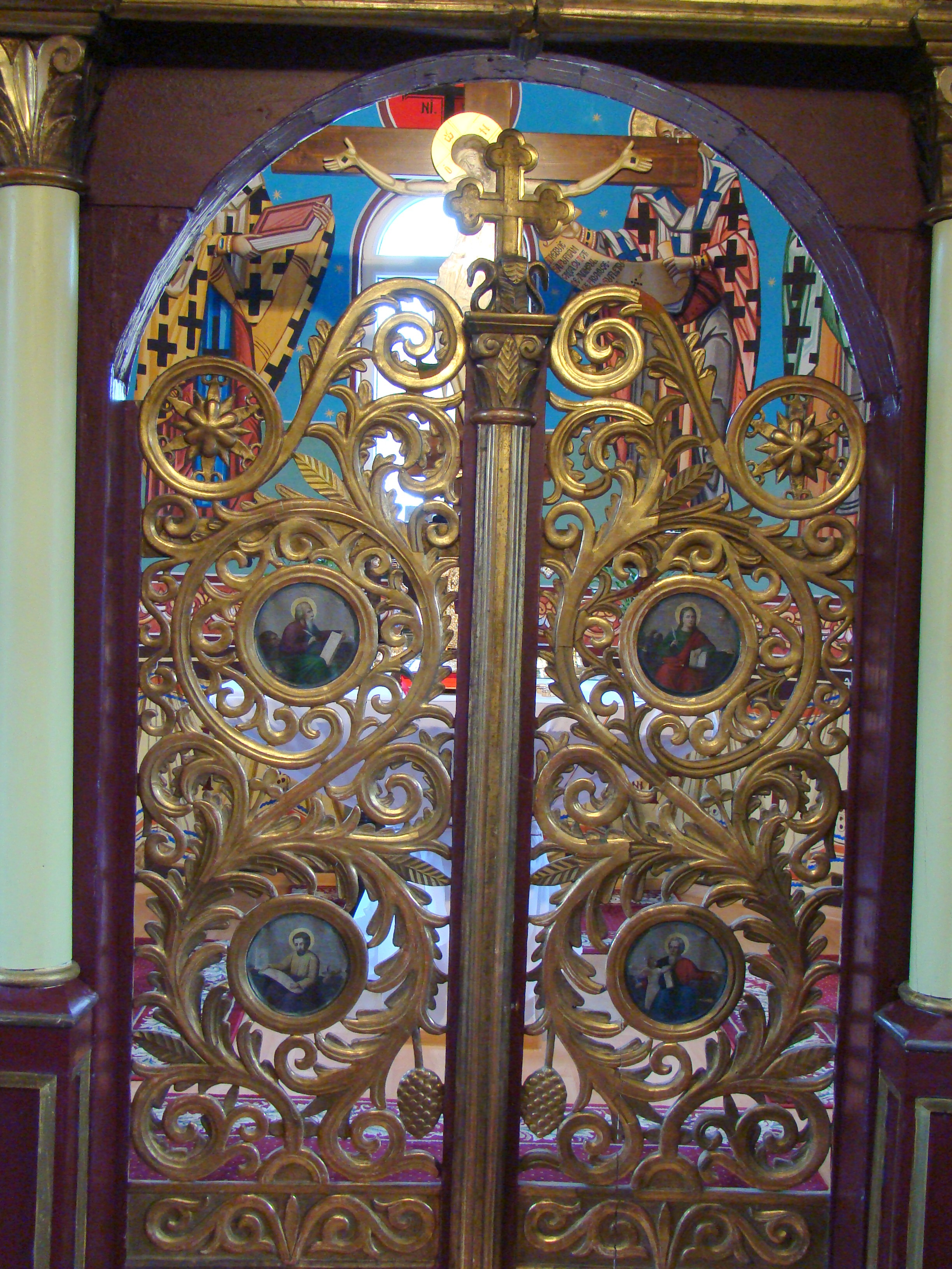 Wooden church in Nețeni, Bistrița-Năsăud county, Romania